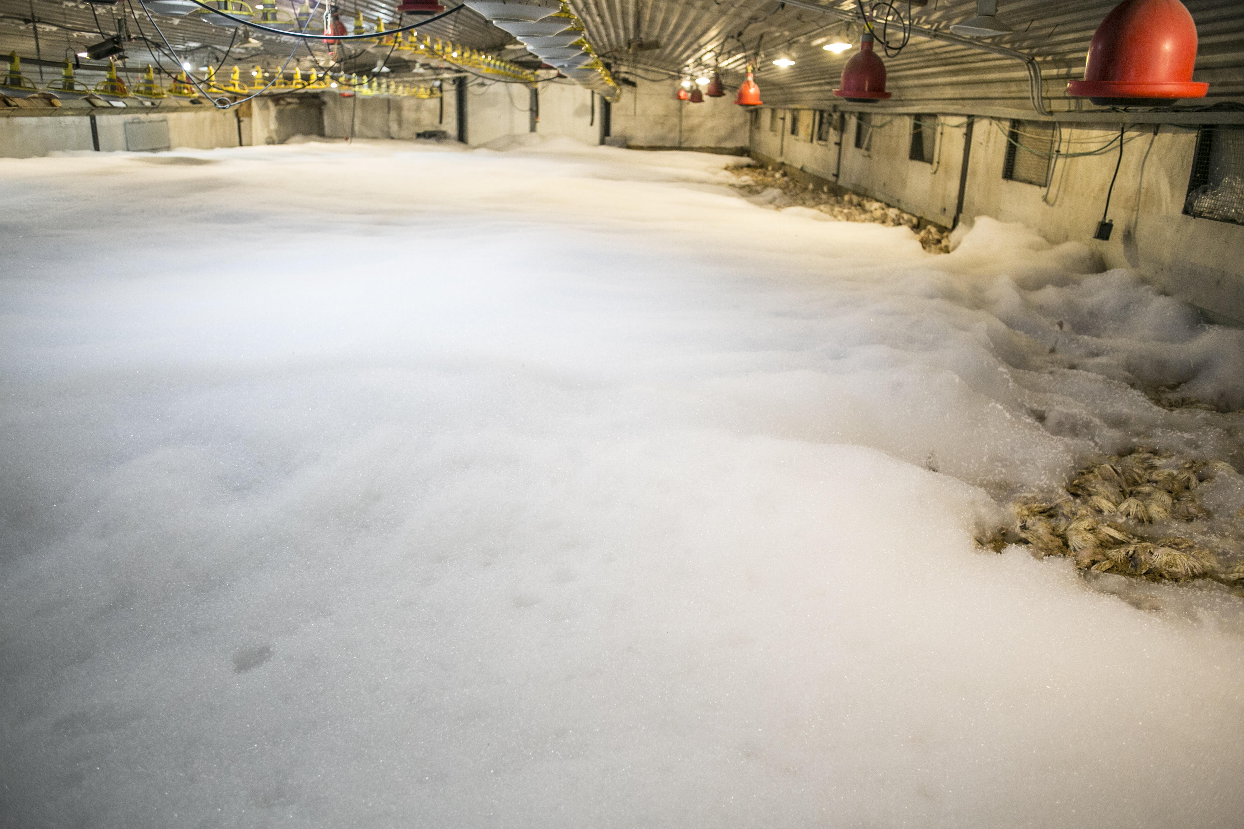 Avian influenza, extermination by foam in a turkey coop, Israel